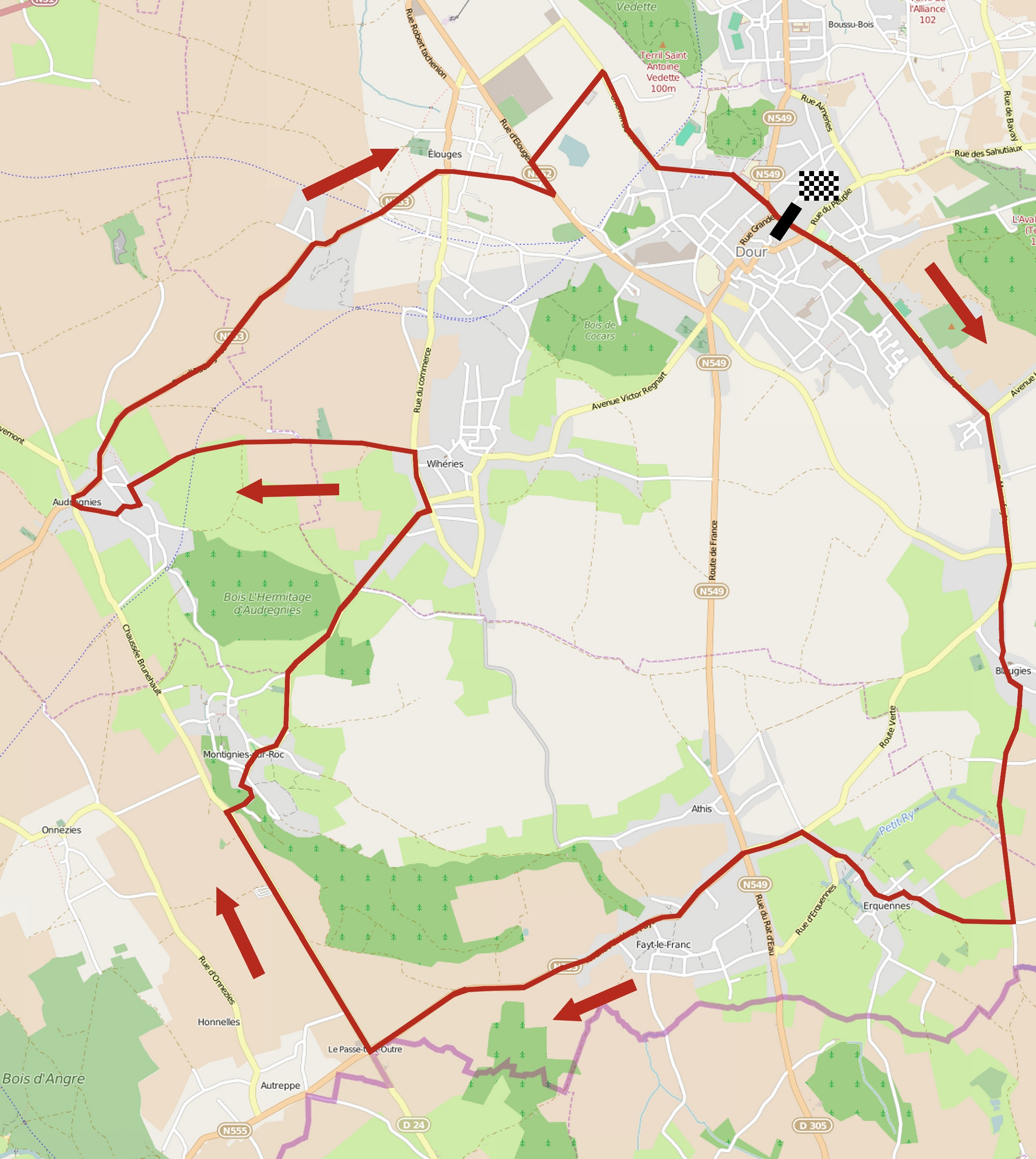 Parcours du circuit local du Samyn 2015. This map may be incomplete, and may contain errors. Don't rely solely on it for navigation.